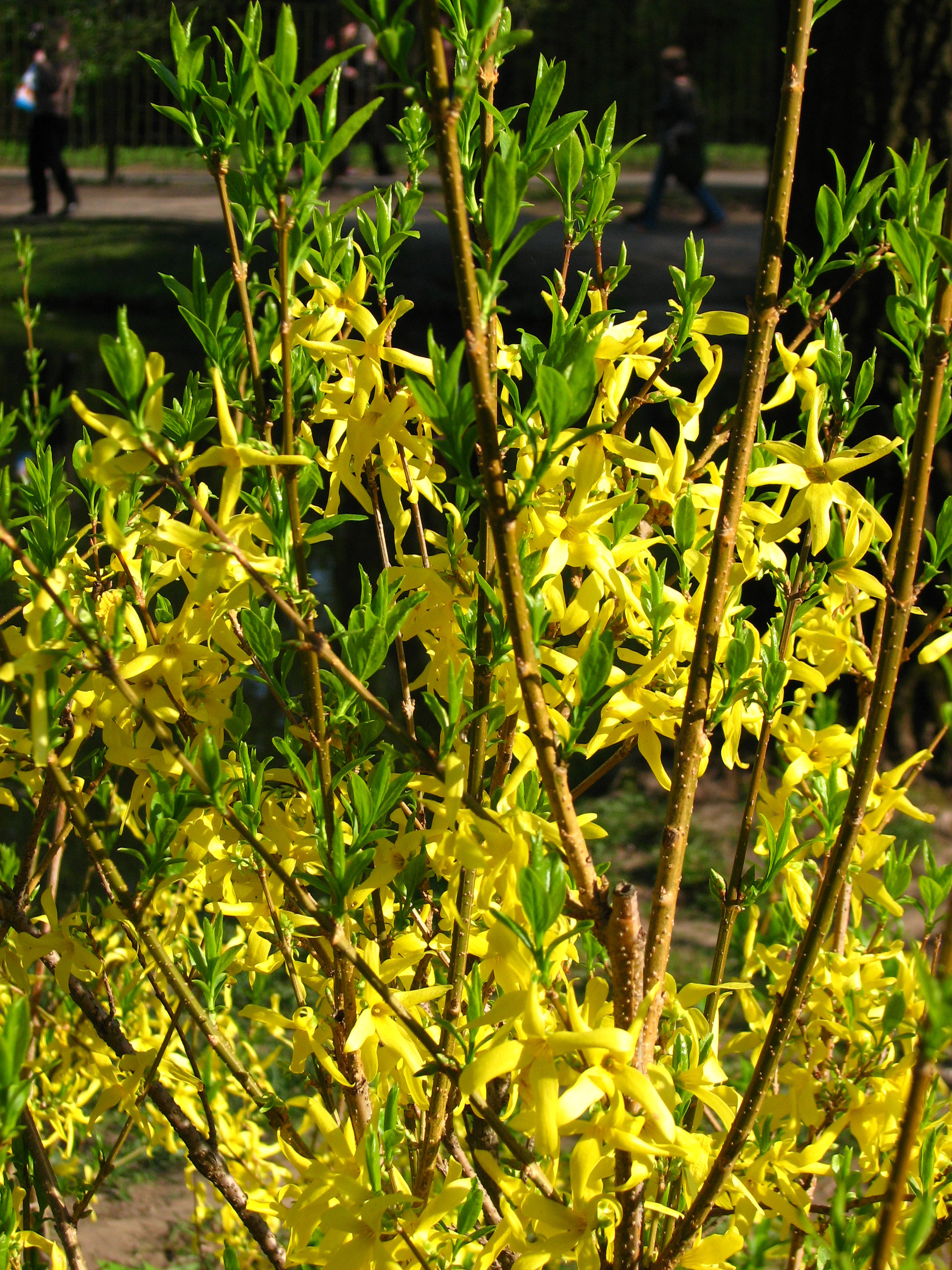 Japanese garden in the Moscow Botanical Garden of Academy of Sciences.